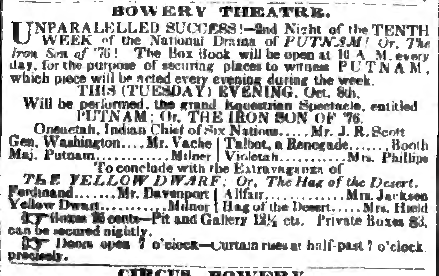 Advertisement for Putnam, Iron Son of '76 - Morning Courier and New-York Enquirier, Oct 8, 1844